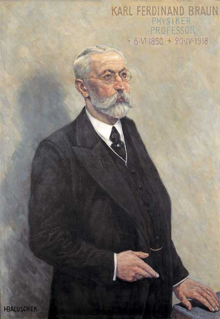 Der Physiker Karl Ferdinand Braun; oil on canvas; 120 x 184 cm